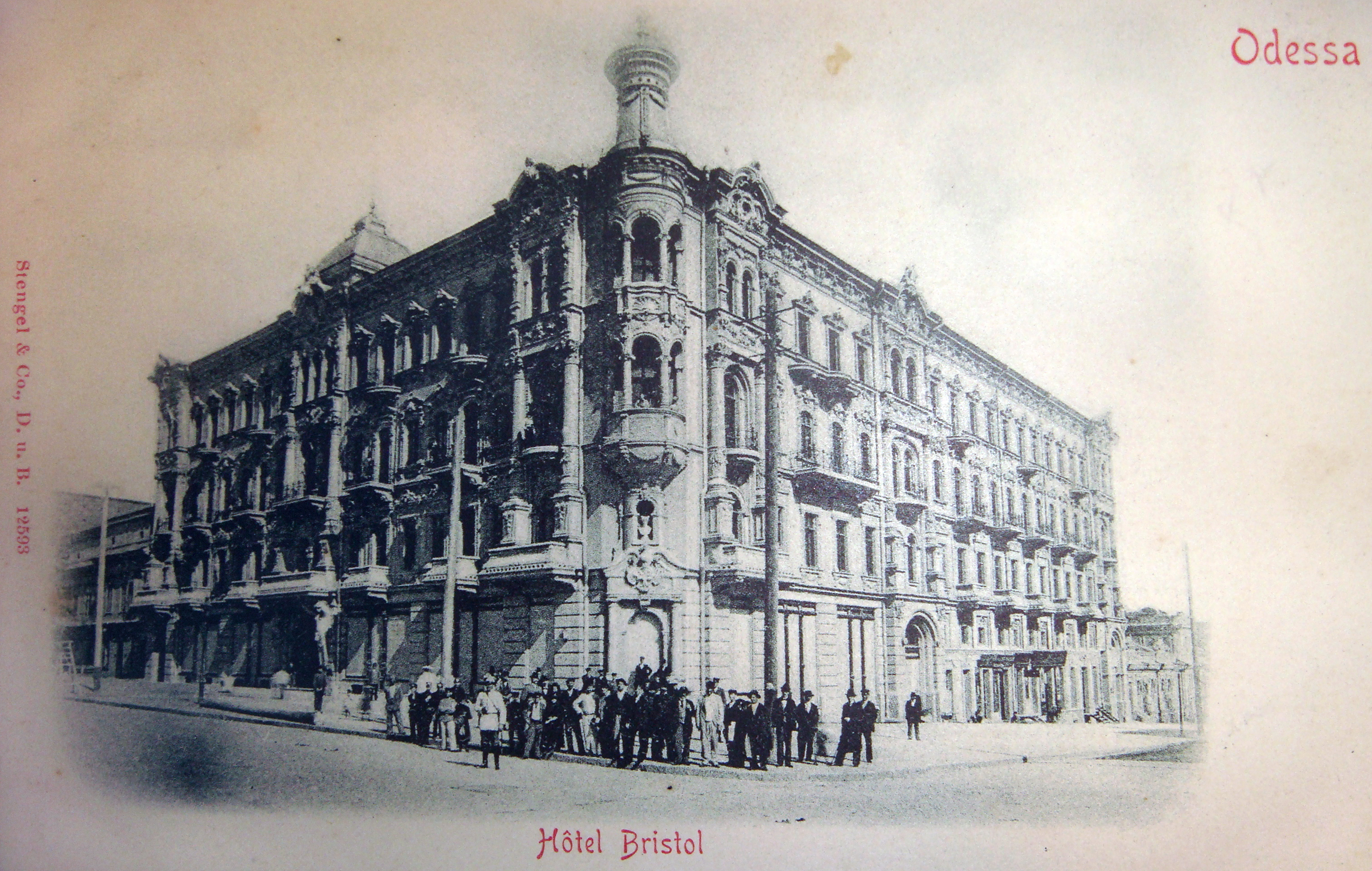 Carta Postale of early XX century with vies of Hotel Bristol in Odessa (now Krasnaya Hotel)